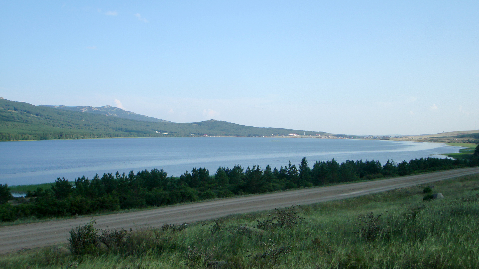 Lake Talkas, Irendyk ridge, and village Isyanovo